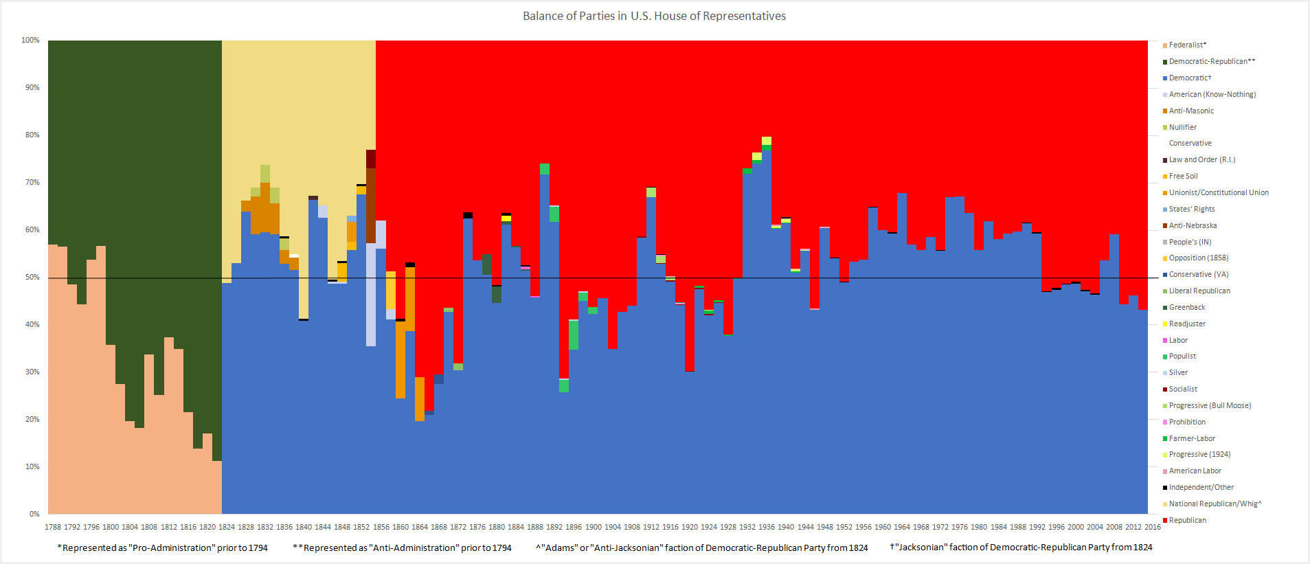 A stacked bar chart showing the percent representation of each political party in the US House of Representatives from 1788 onwards.